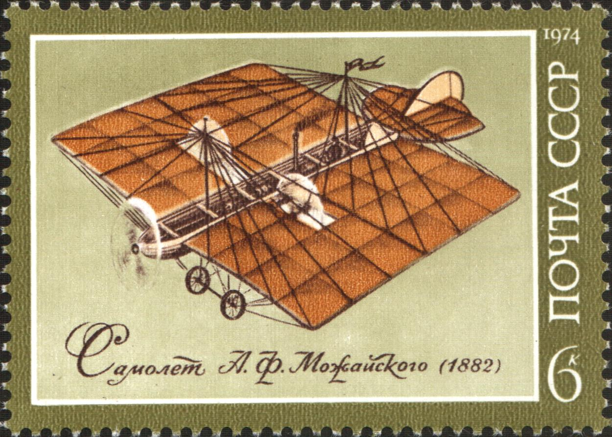 USSR stamp